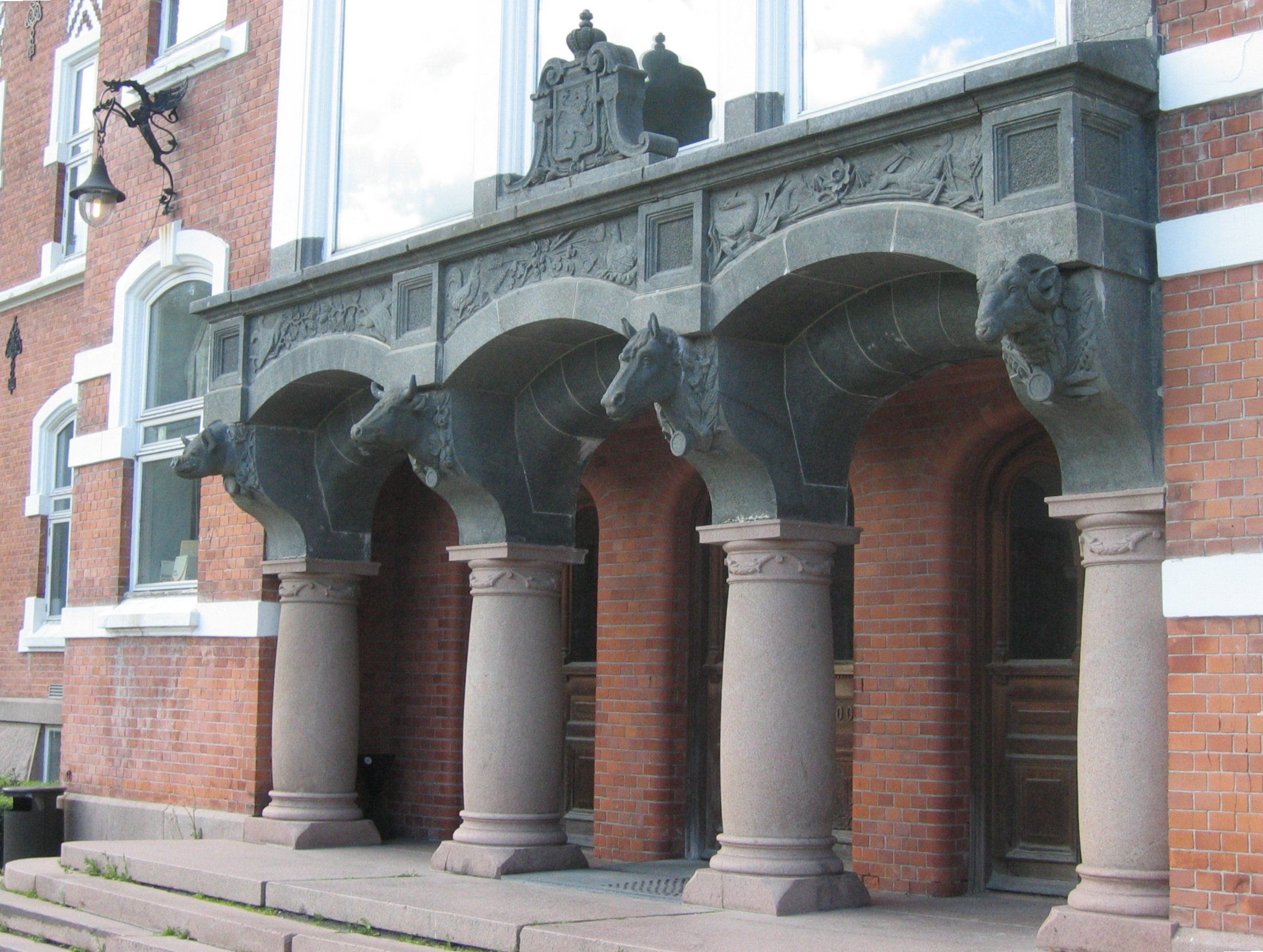 Norwegian University of Life Sciences in Ås, Norway, formerly Norges landbrukshøgskole, entrance with heads of farm animals